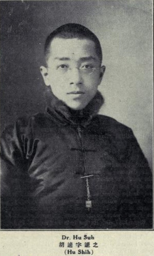 Hu Shi, Shizhi (1891 - 1962)